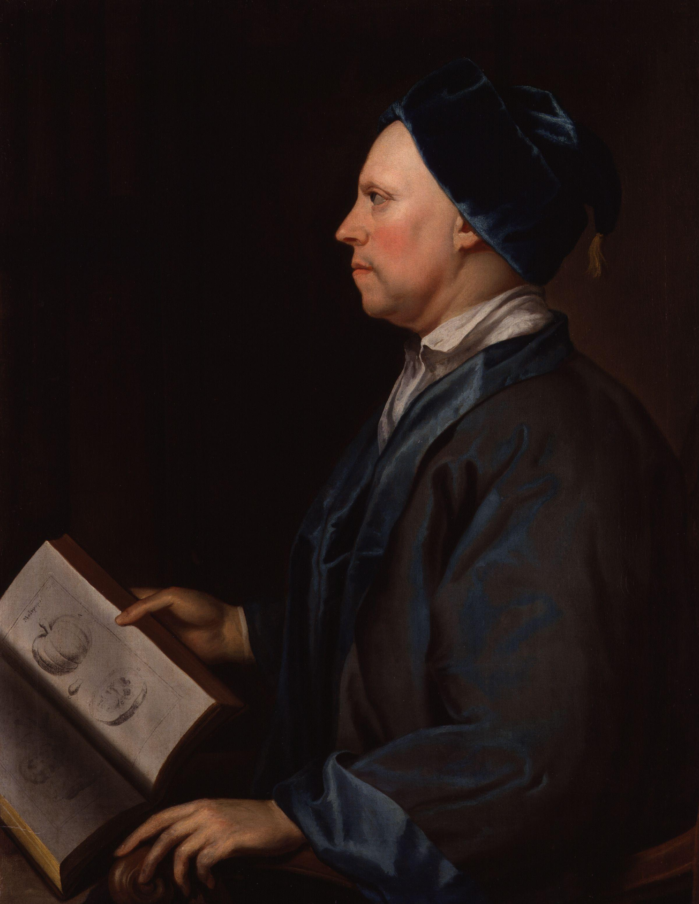 John Martyn, by unknown artist. All images in this batch have an unknown author, but there is strong evidence it was first published before 1923 (based mainly on the NPG's estimated date of the work).